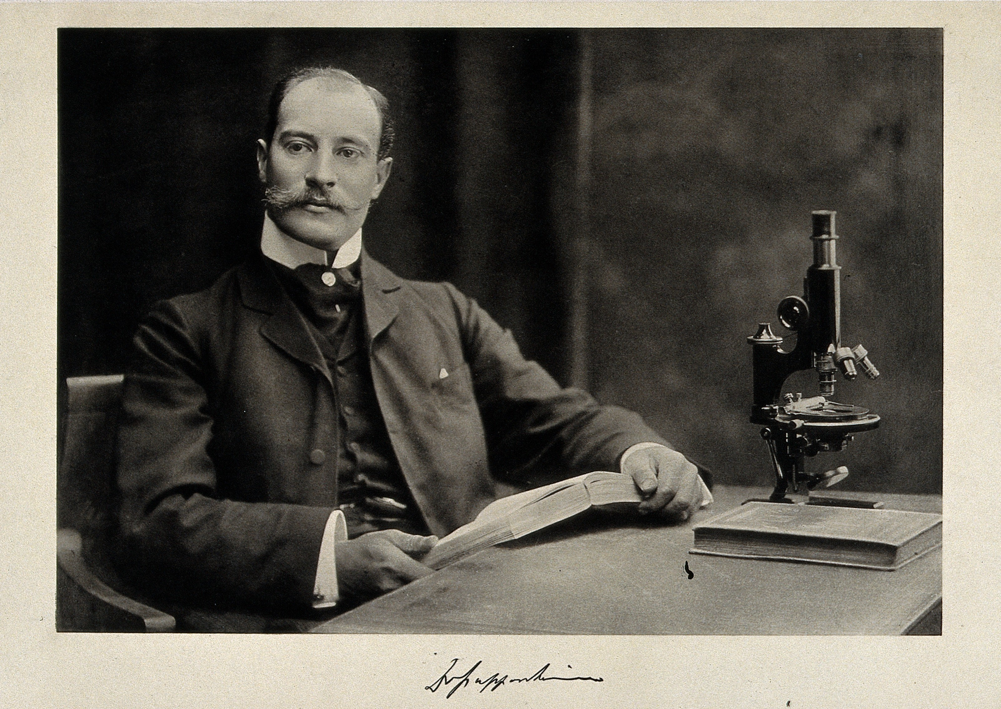 Artur Pappenheim. Photogravure. Iconographic Collections Keywords: portrait prints